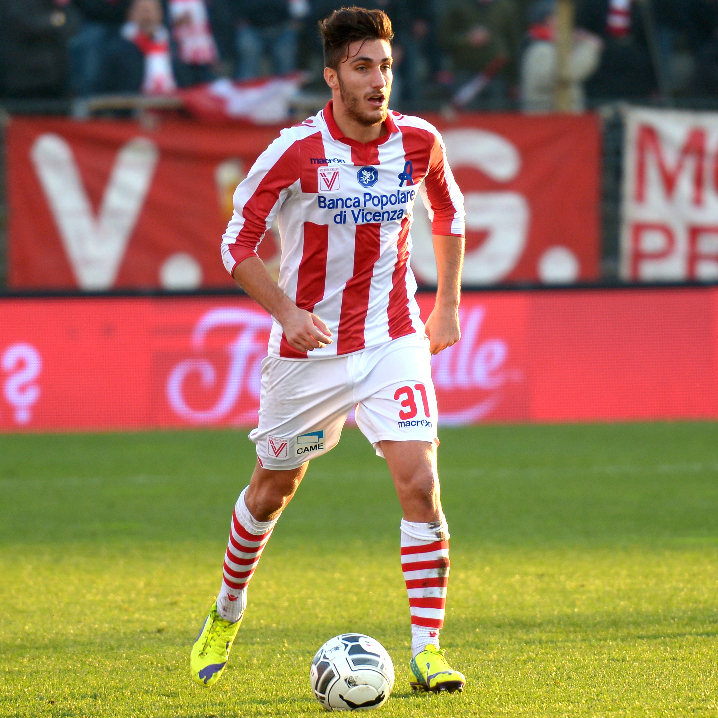 Mario Sampirisi, italian soccer player.